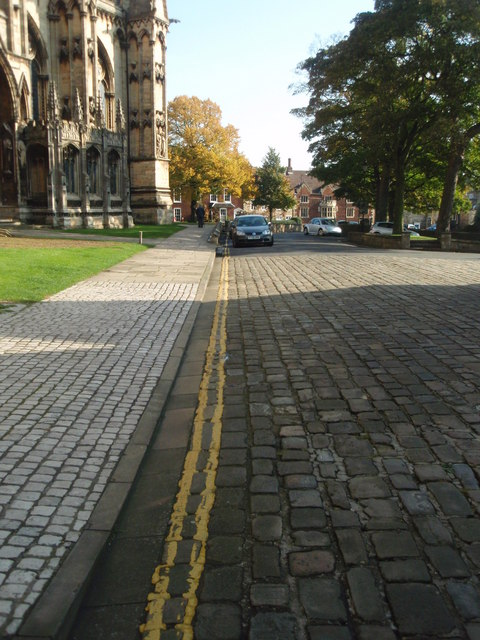 No Parking Minster Yard Double Yellow Lines or a worn single.